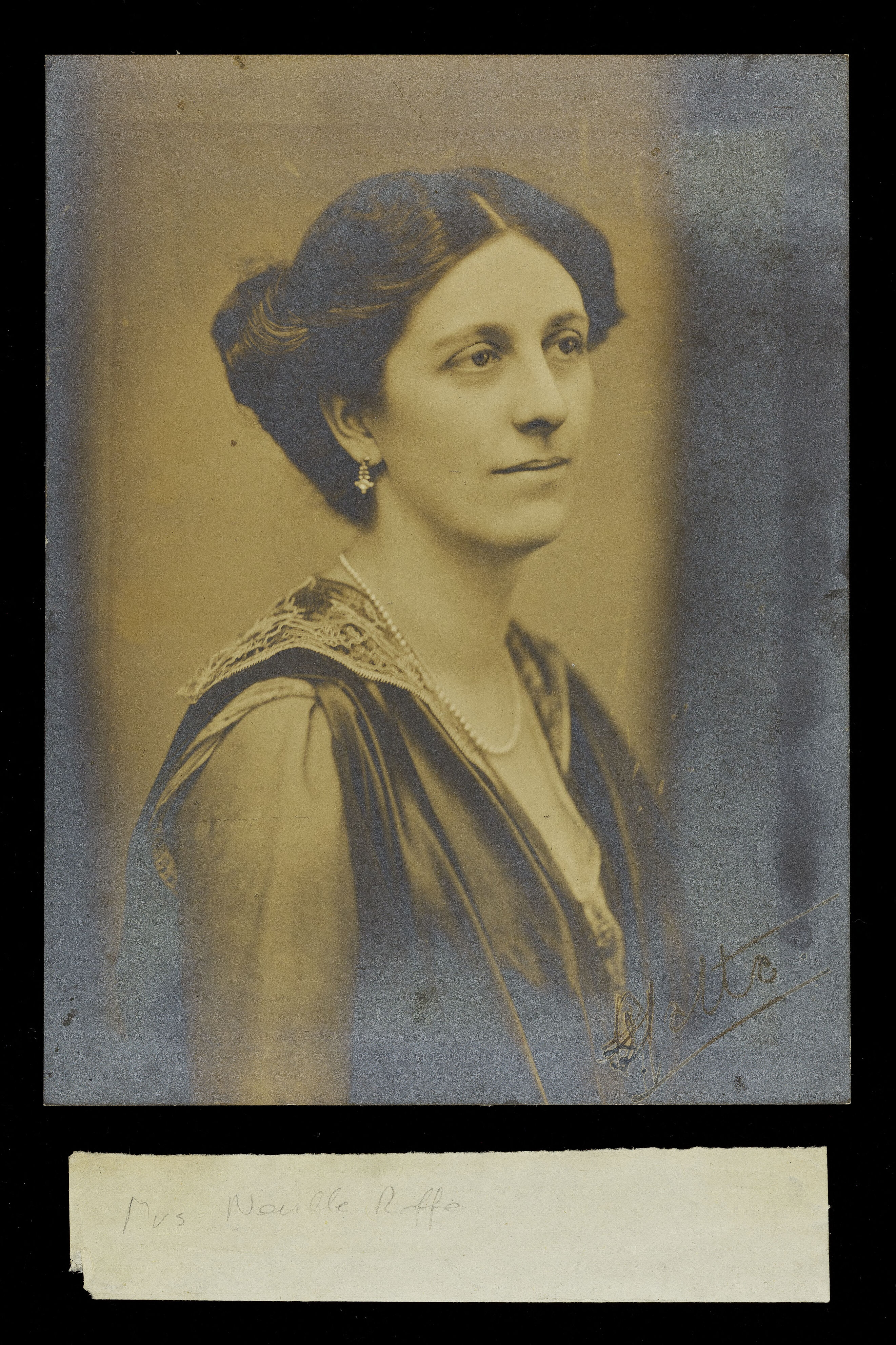 A photograph of Sybil Neville Rolfe (formerly Sybil Gotto) from the Wellcome Library Eugenics Society Archive.